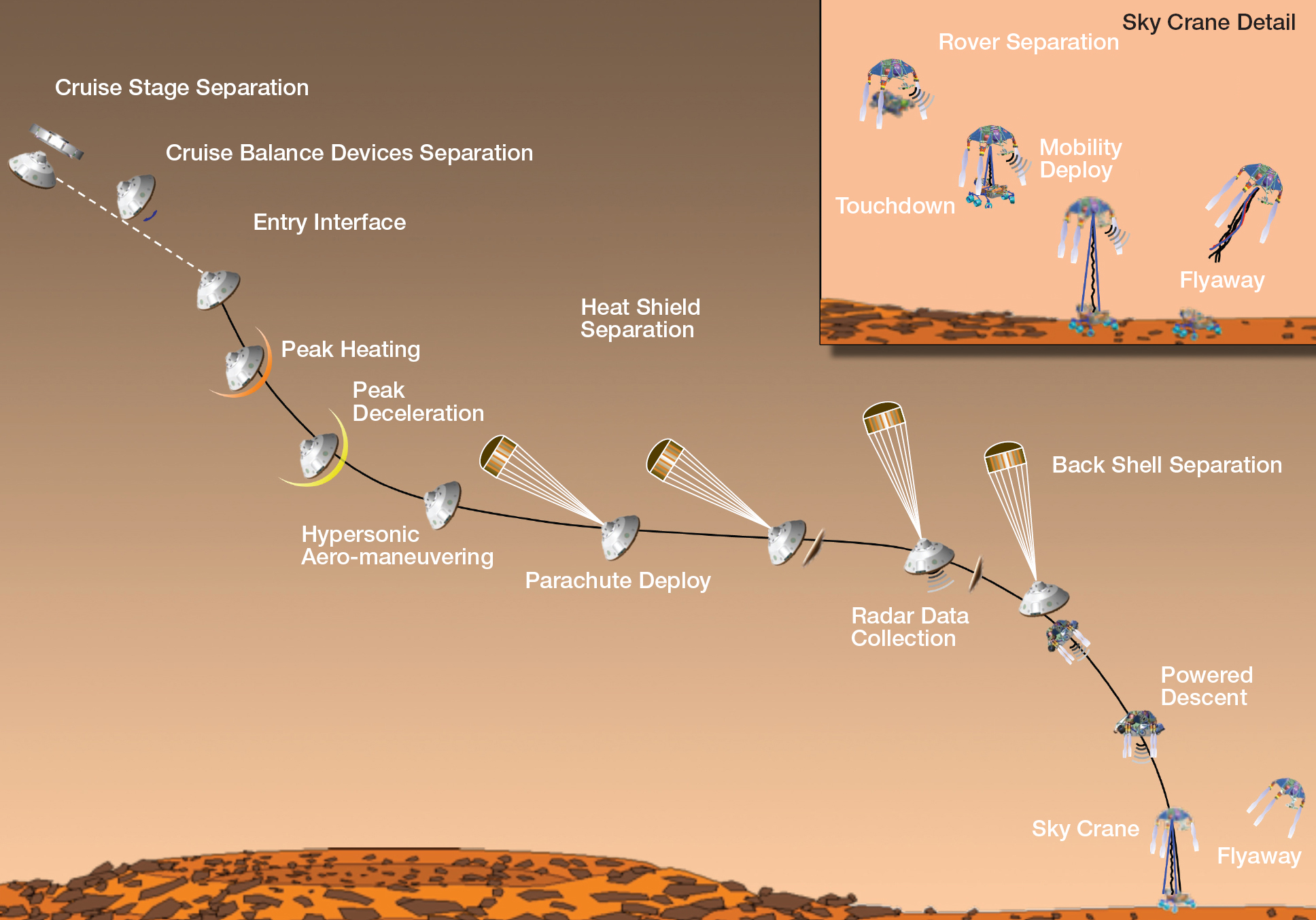 Curiosity's EDL team releases a timeline for mission milestones (depicted in this artist's concept) surrounding the landing of the Mars rover. Image credit: NASA/JPL-Caltech